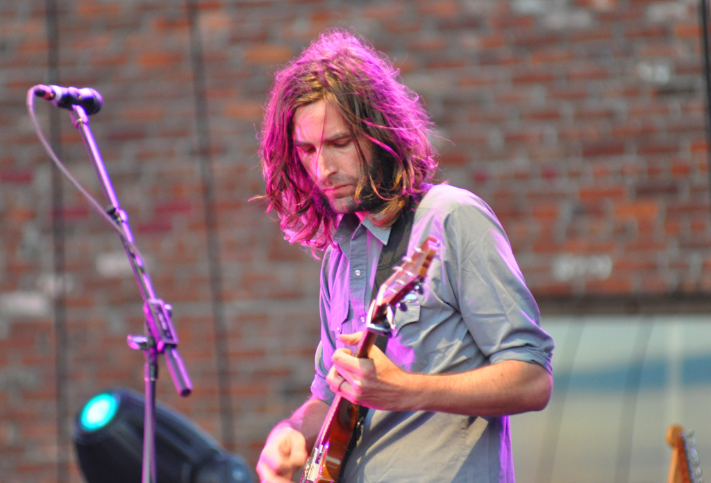 Tyler Ramsey of Band of Horses at the Williamsburg Waterfront, Brooklyn, June 20, 2010